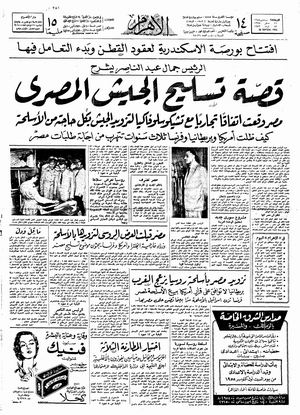 Al-Ahram Newspaper During Suez Crisis 28-09-1955